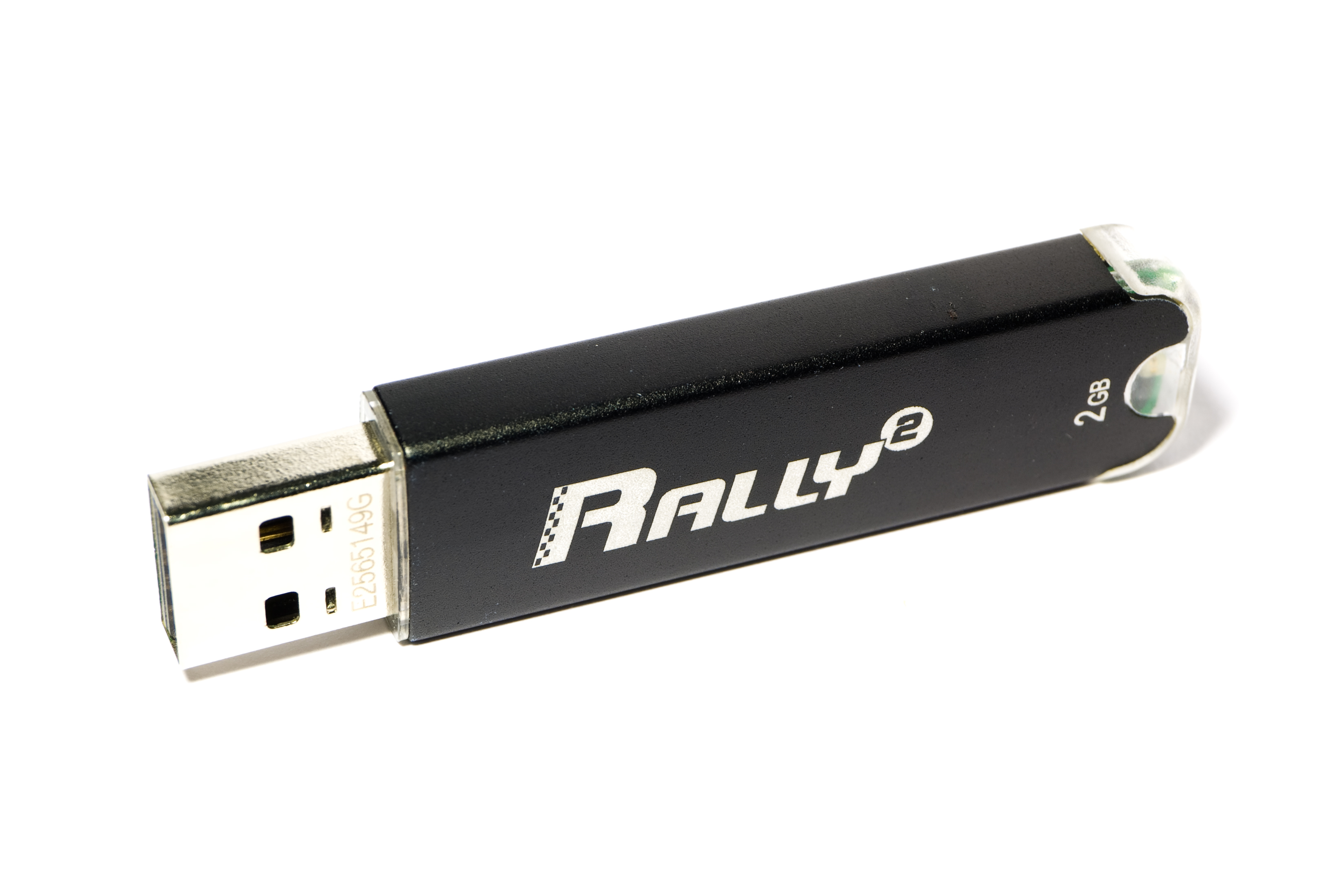 Image of an OCZ Rally 2 USB Flash Drive